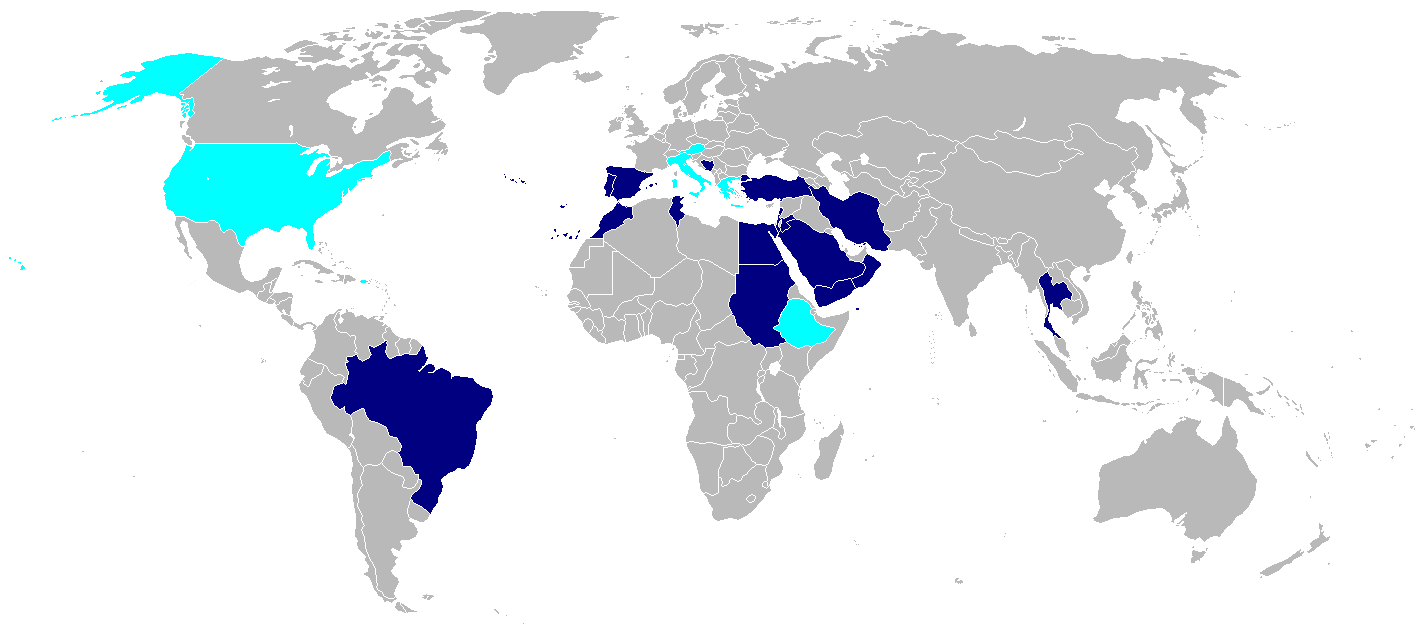 Current users of the M60 in dark blue, former in cyan.